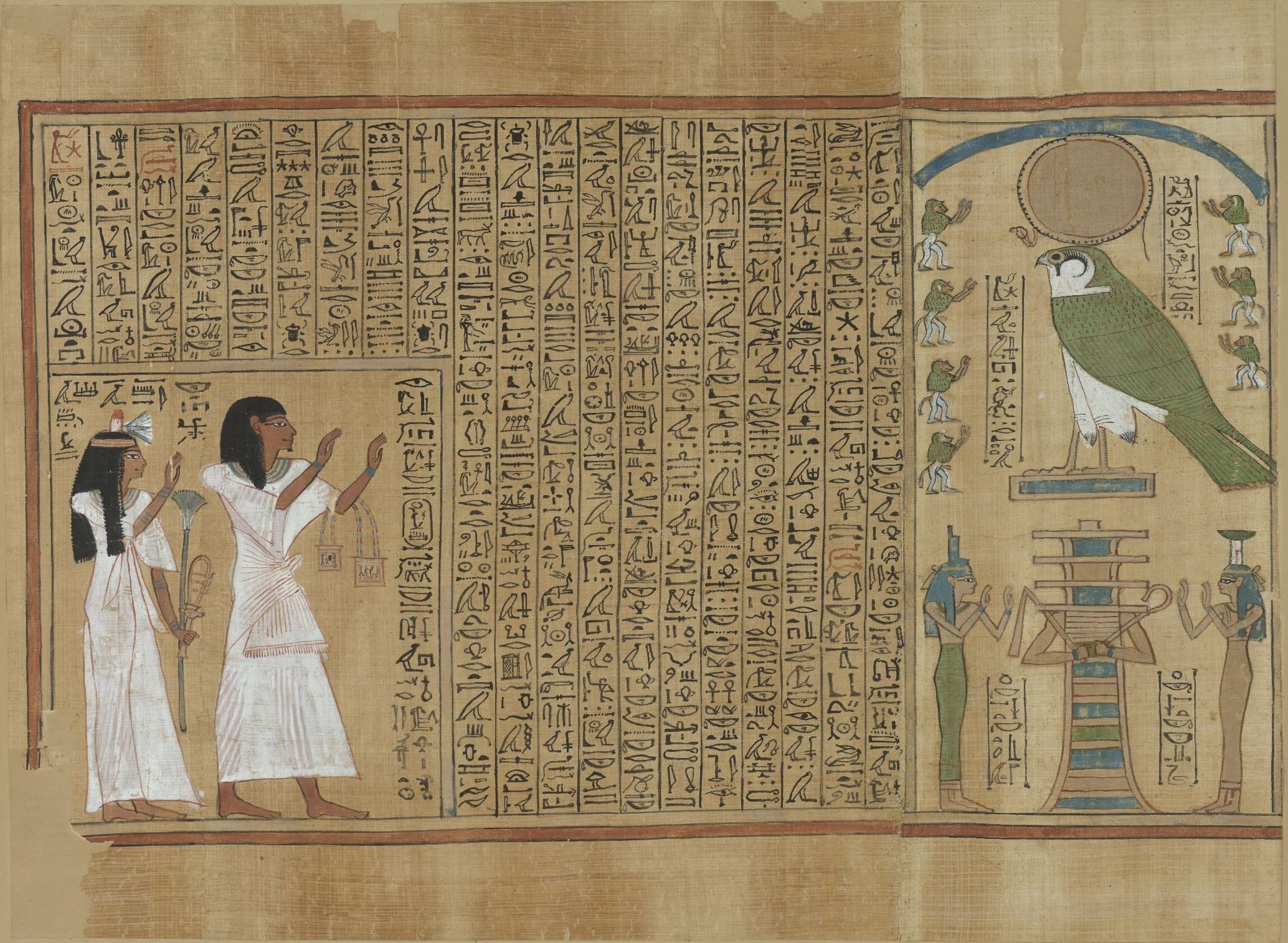 The Book of the Dead of Hunefer, sheet 1